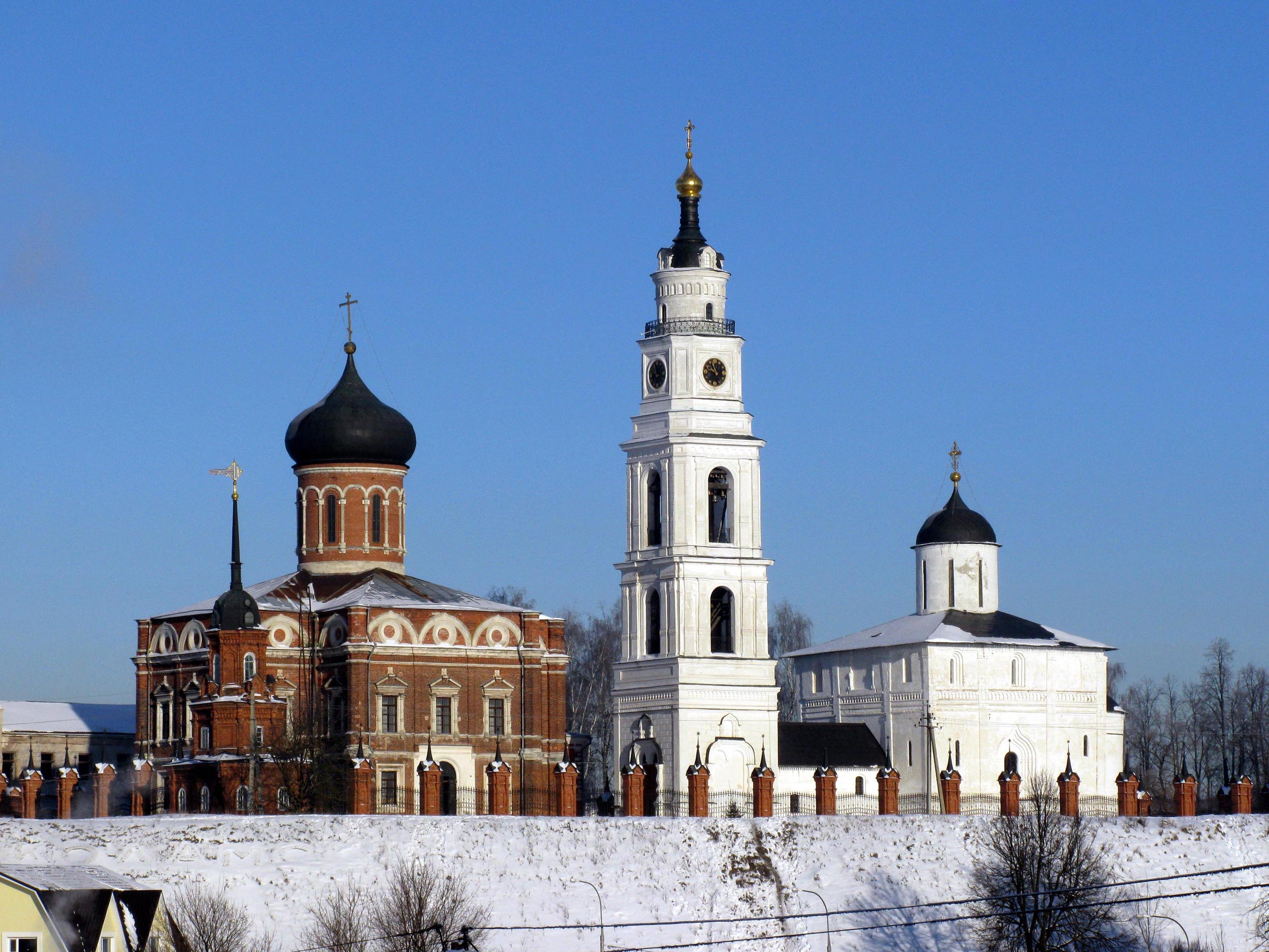 Volokolamsk Kremlin